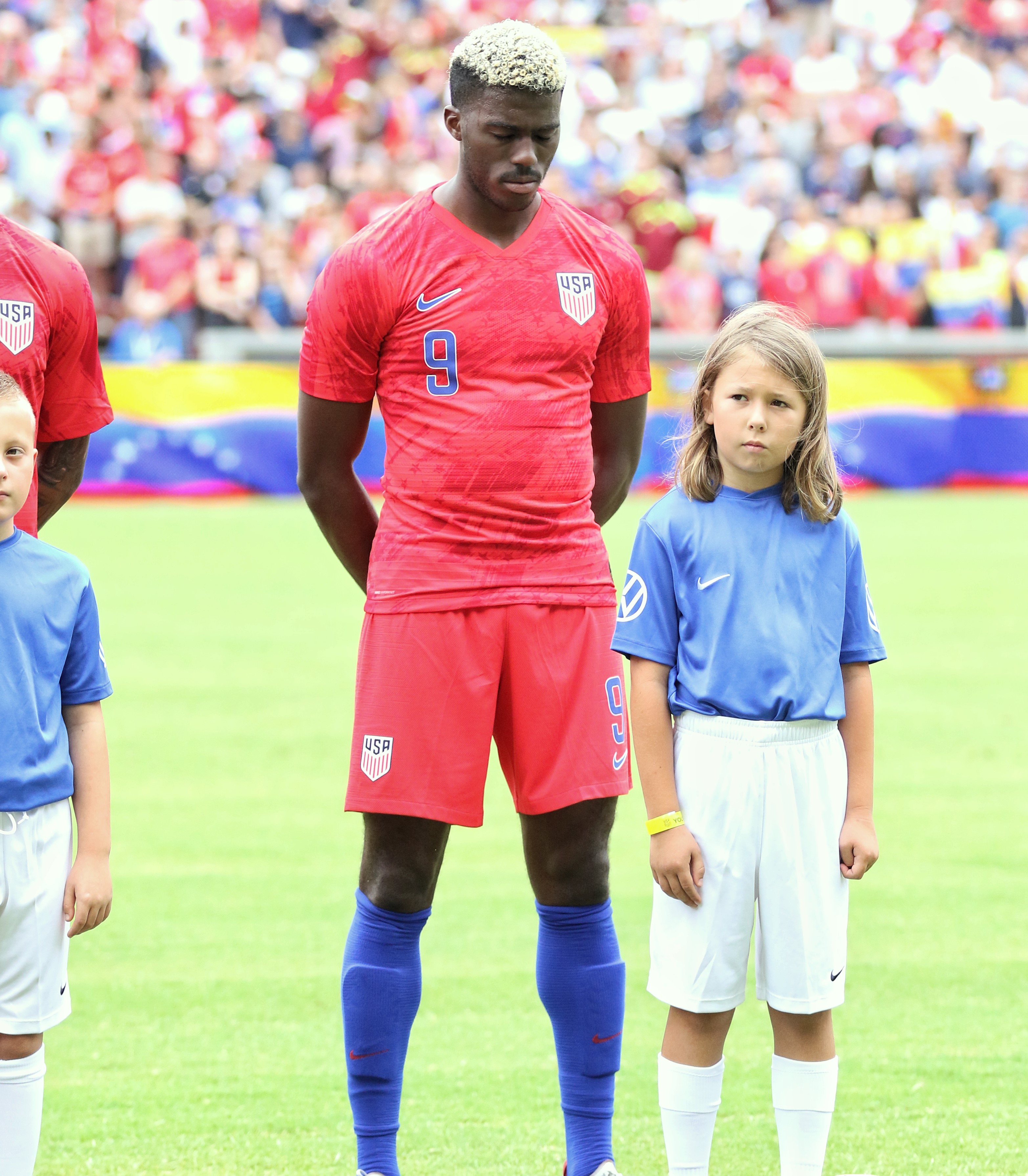 Gyasi Zardes representing the United States men's national soccer team on June 9, 2019.